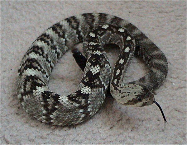 Photographer: Dawson Crotalus molossus